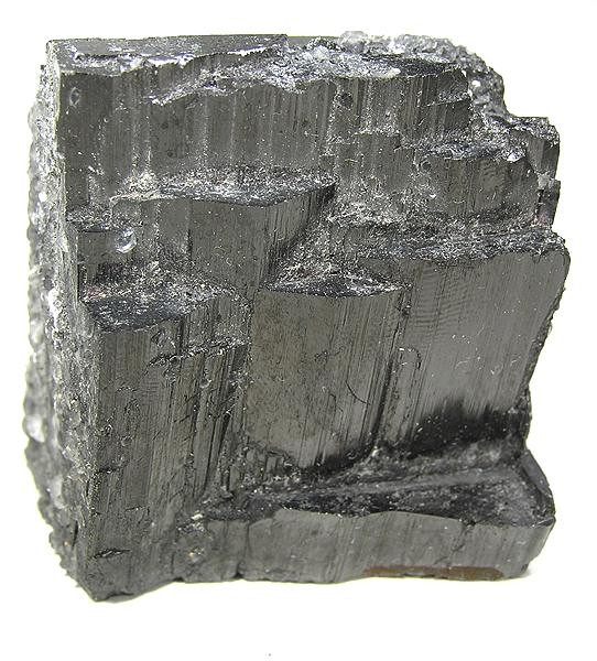 Wolframite Locality: Panasqueira, Covilhã, Castelo Branco District, Portugal (Locality at ) Size: 4.9 x 3.9 x 3.8 cm. This is a whopper, chunky crystal of wolframite, not from China where a flood has come from lately but from the classic wolframite locality of Panasqueira. Calcite crystals have grown on the back and sides, and the display face has these pretty terraces and fine luster.